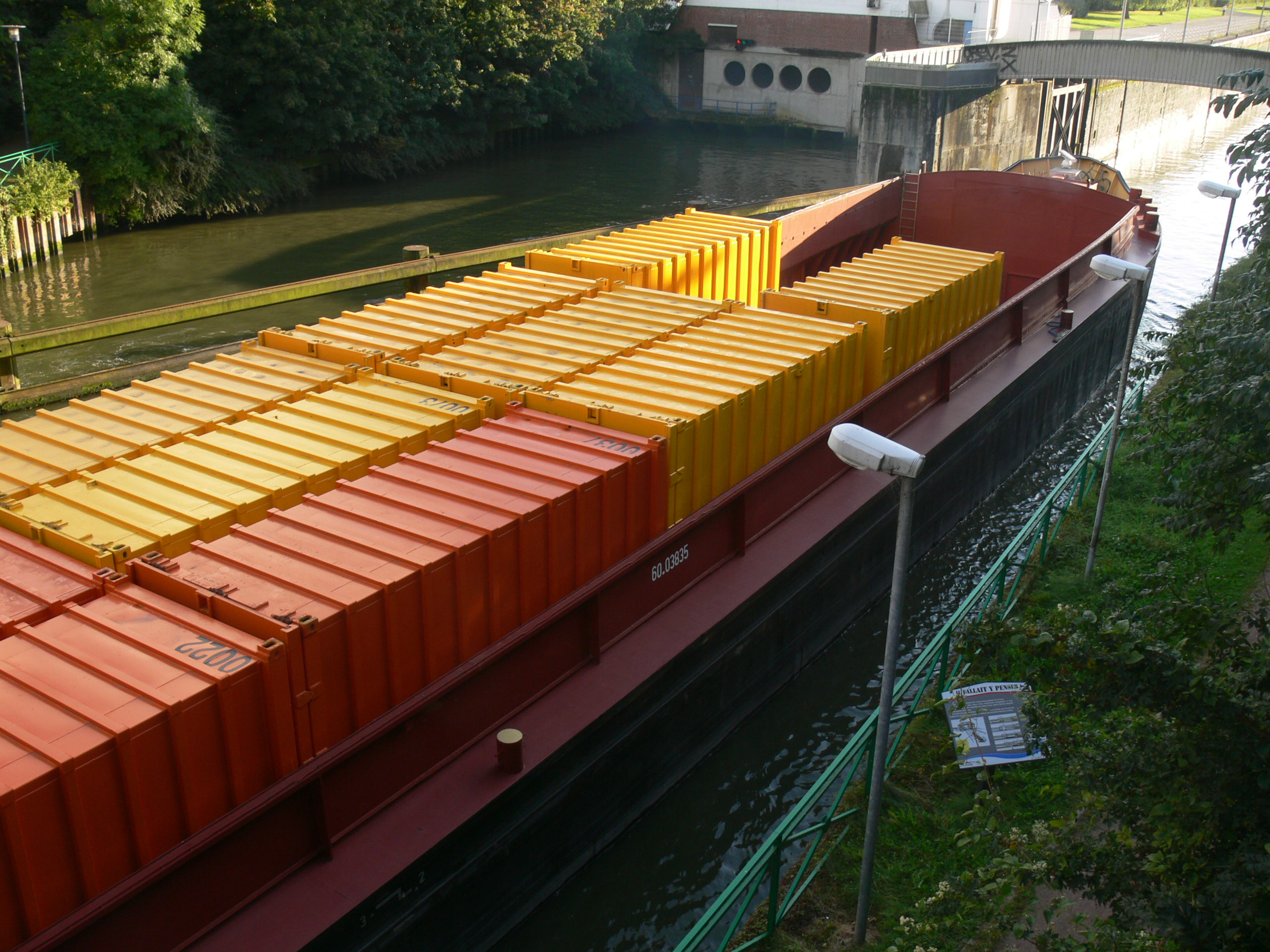 Barge entering the gates of the "Grand carré" on the Deûle channeled to lille (in north of france), upstream from the port of Lille. ENI Number: 06003835